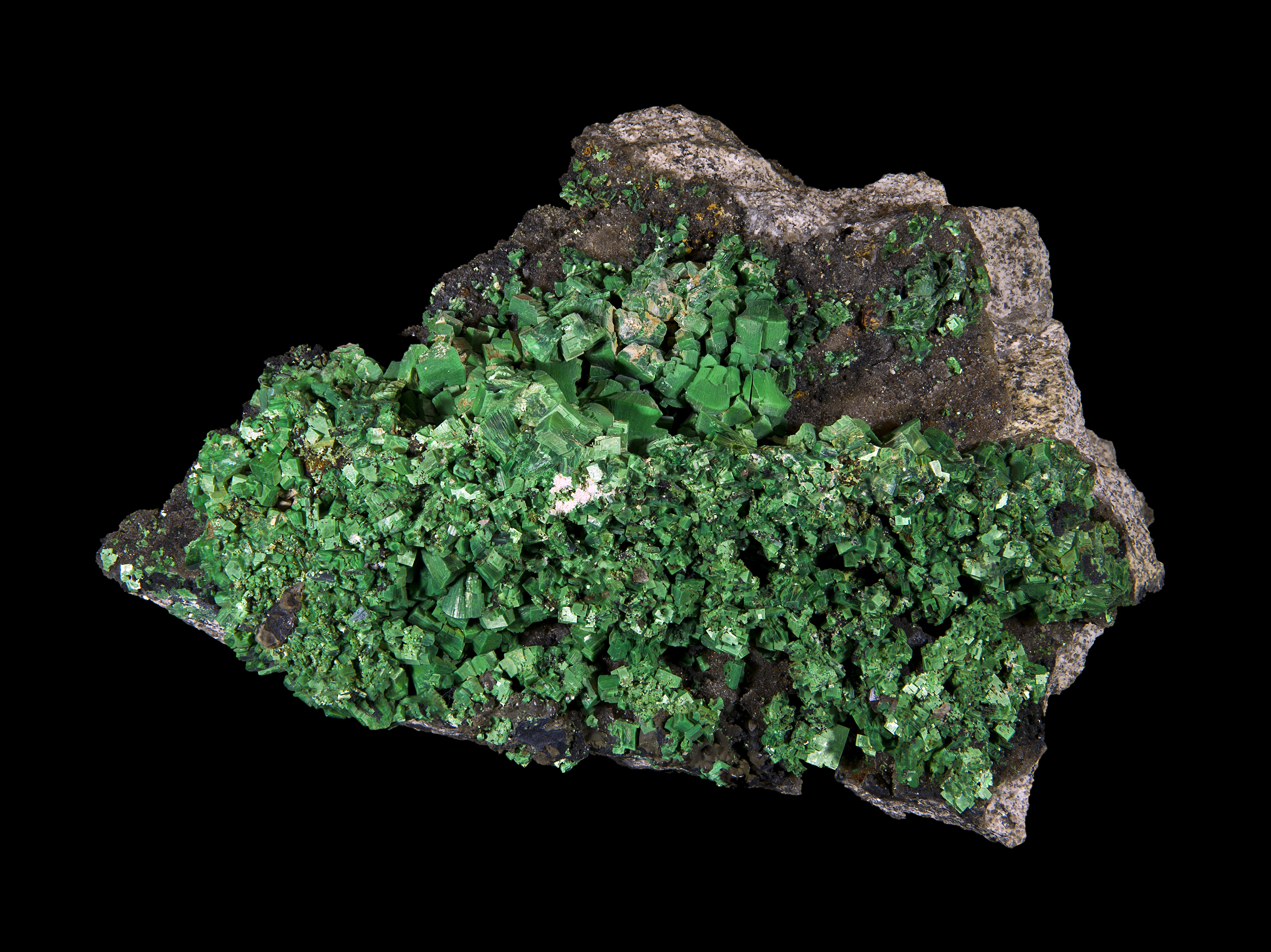 Torbernite Locality : Margabal Mine, Entraygues-sur-Truyère, Aveyron, Midi-Pyrénées, France Size : 15.3 x 9.6 x 5.6 cm